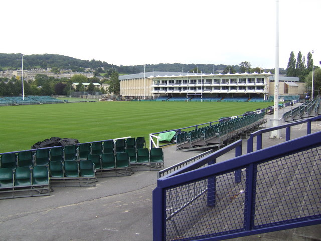 Bath Rugby ground, part of The Recreation Ground, Bath, England